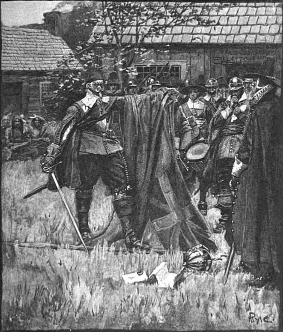 "Endicott cutting the cross out of the English flag", illustration depicting an event that occurred in Massachusetts Bay Colony in 1634.